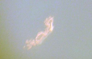 Ned's Reef Tasmania (I suspect this is it) view from south east